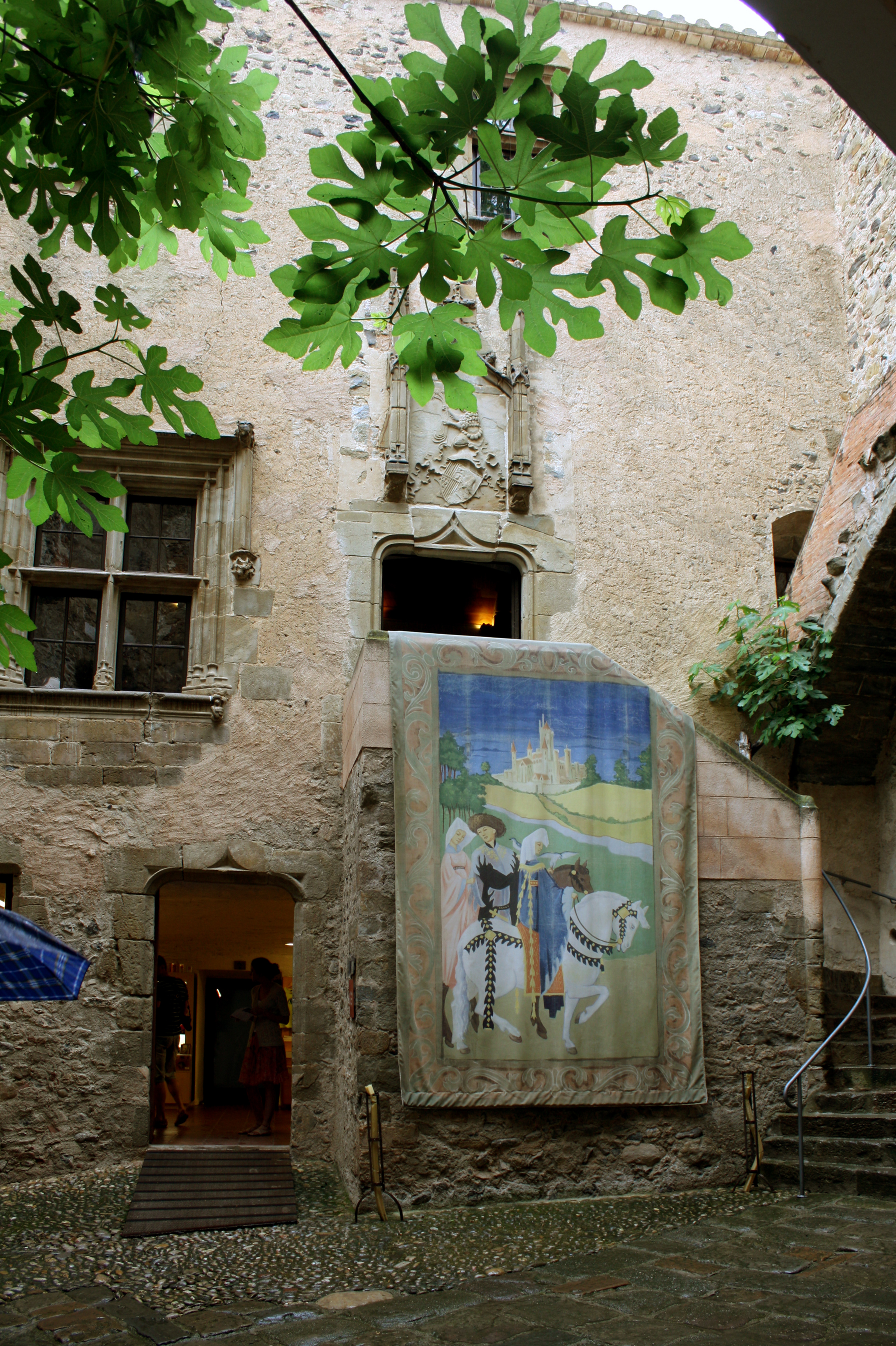 Castle of Púbol's central patio